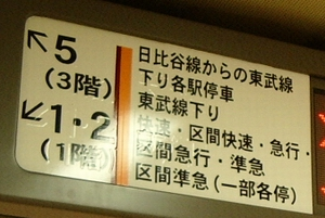 A machine of Tobu line and mentioned Kitasenju station